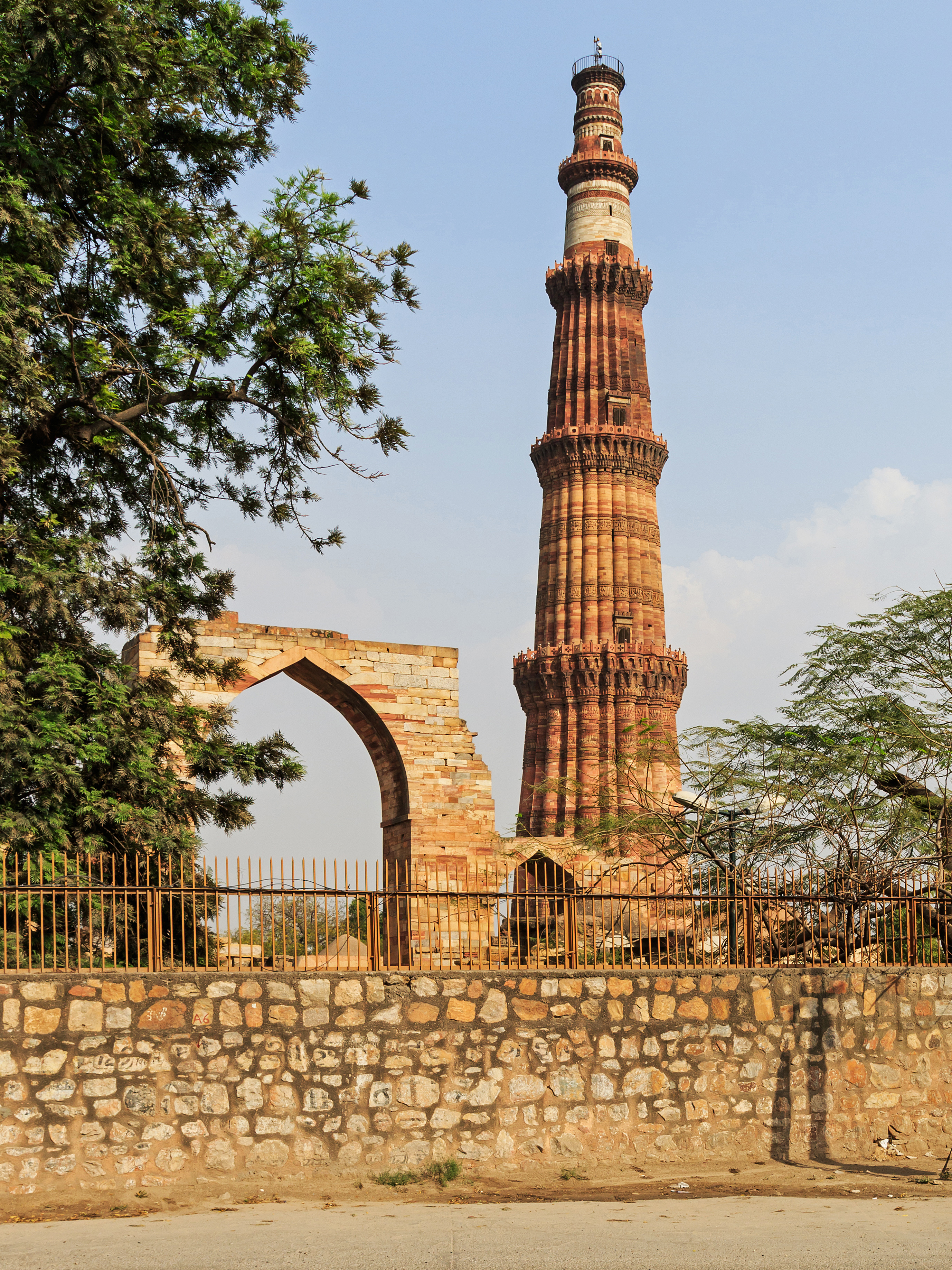 Qutub Minar in Delhi, India